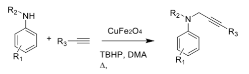 C-H activation in Mannich type reaction. Adapted from the article - Catalysis Science & Technology, 2014. 4(12): p. 4281- 4288.